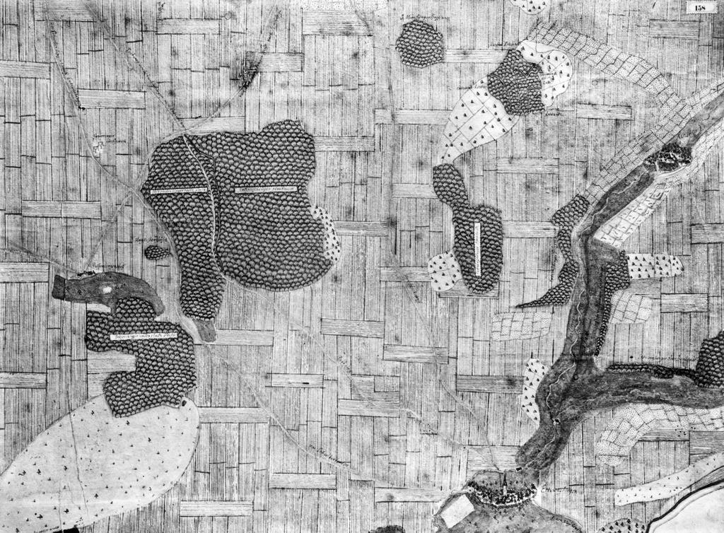 Clip of Andreas Kieser’s forest map